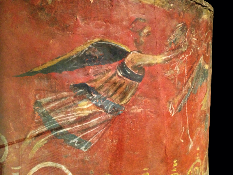 Winged victory from the painted Roman scutum.